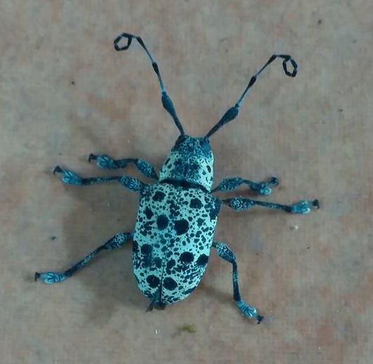 Thryallis ocellatus, photographed in Monteverde, Costa Rica. Blue tint is due to lighting. Actual color is pale gray with dark spots.